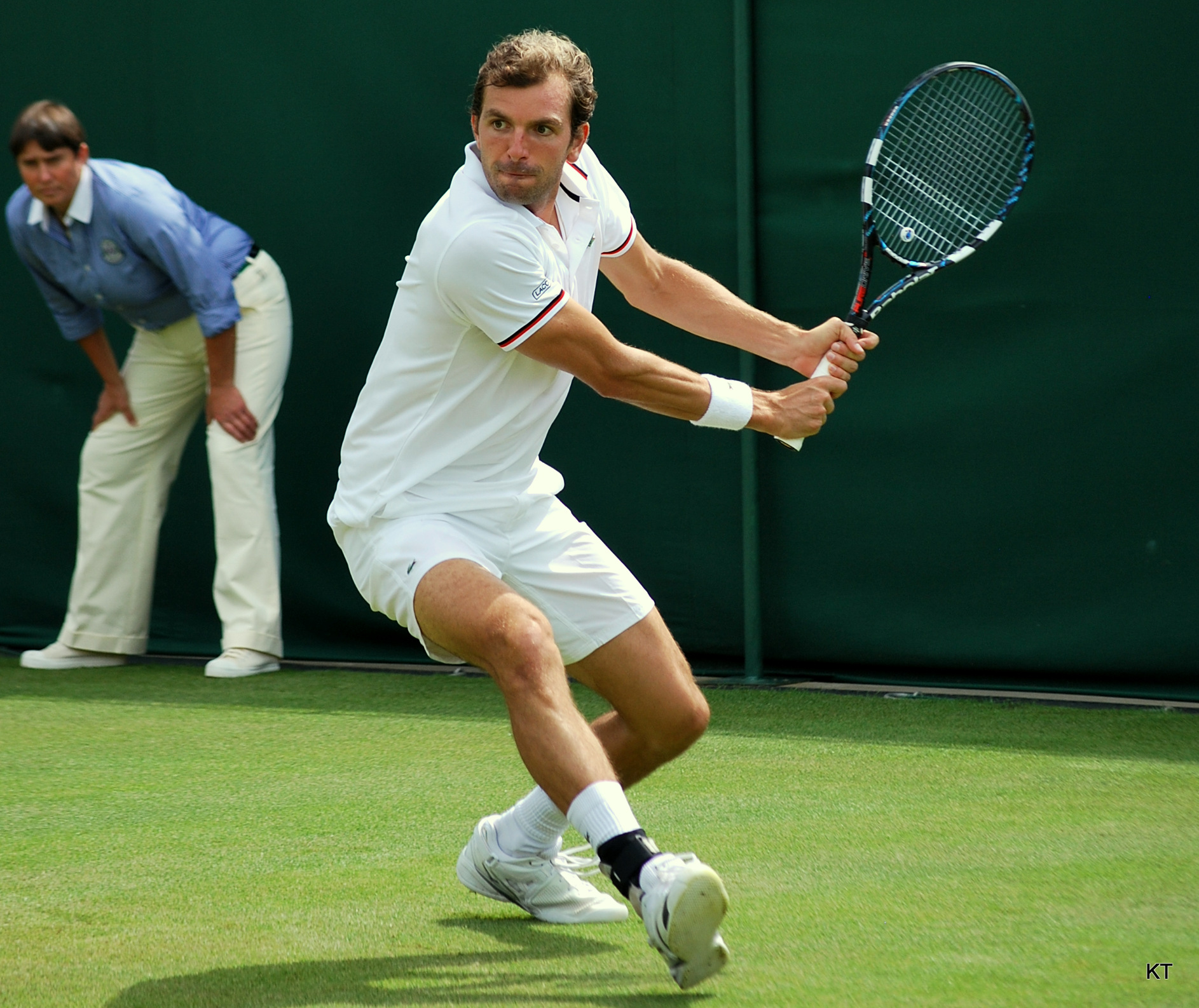 Julien Benneteau during his first round match with Gilles Muller, on Day 1 of Wimbledon 2012. Benneteau won 6-2, 7-5, 7-6.